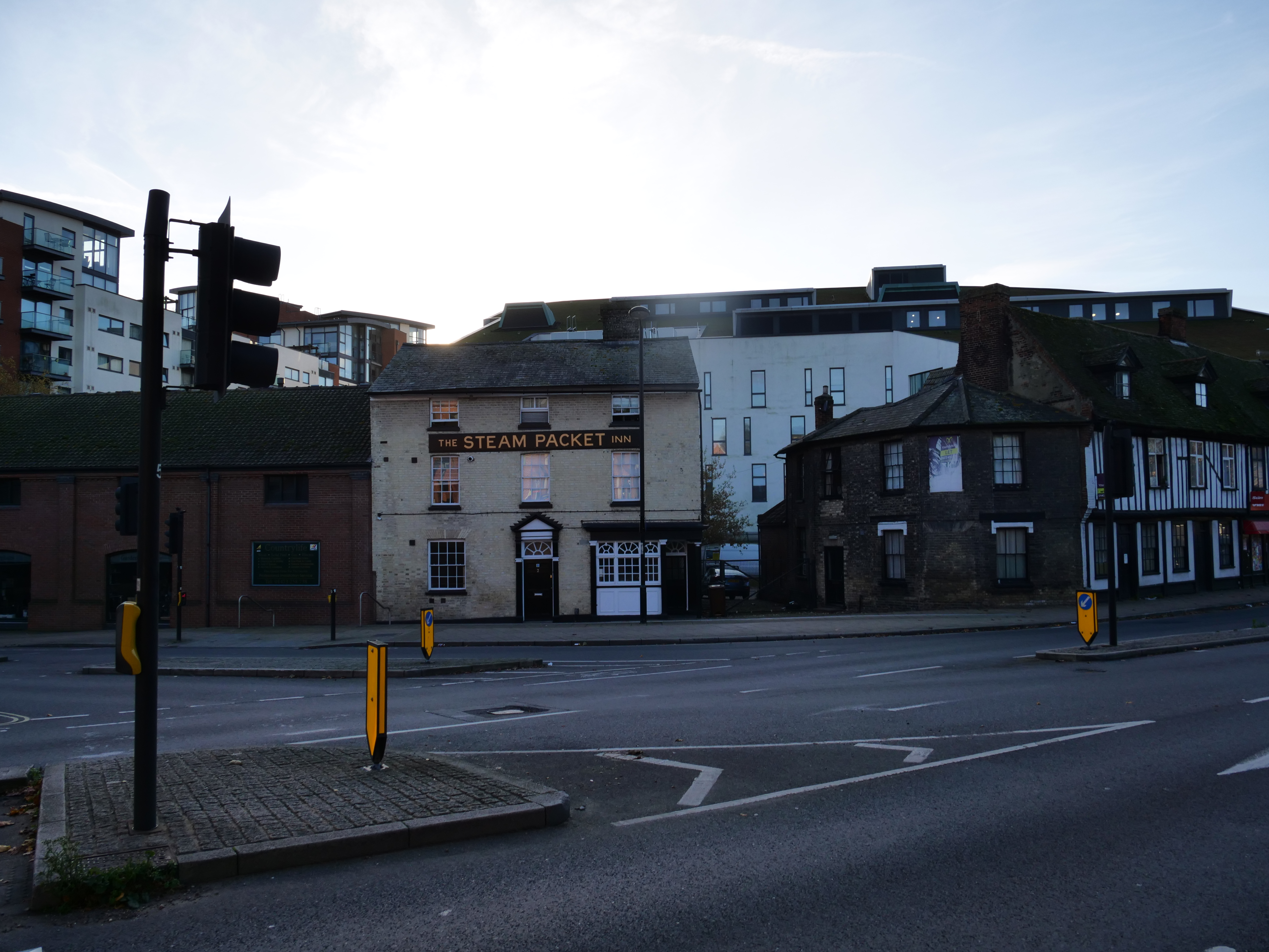 Twentyfirst century road with former public house still bearing the name in background